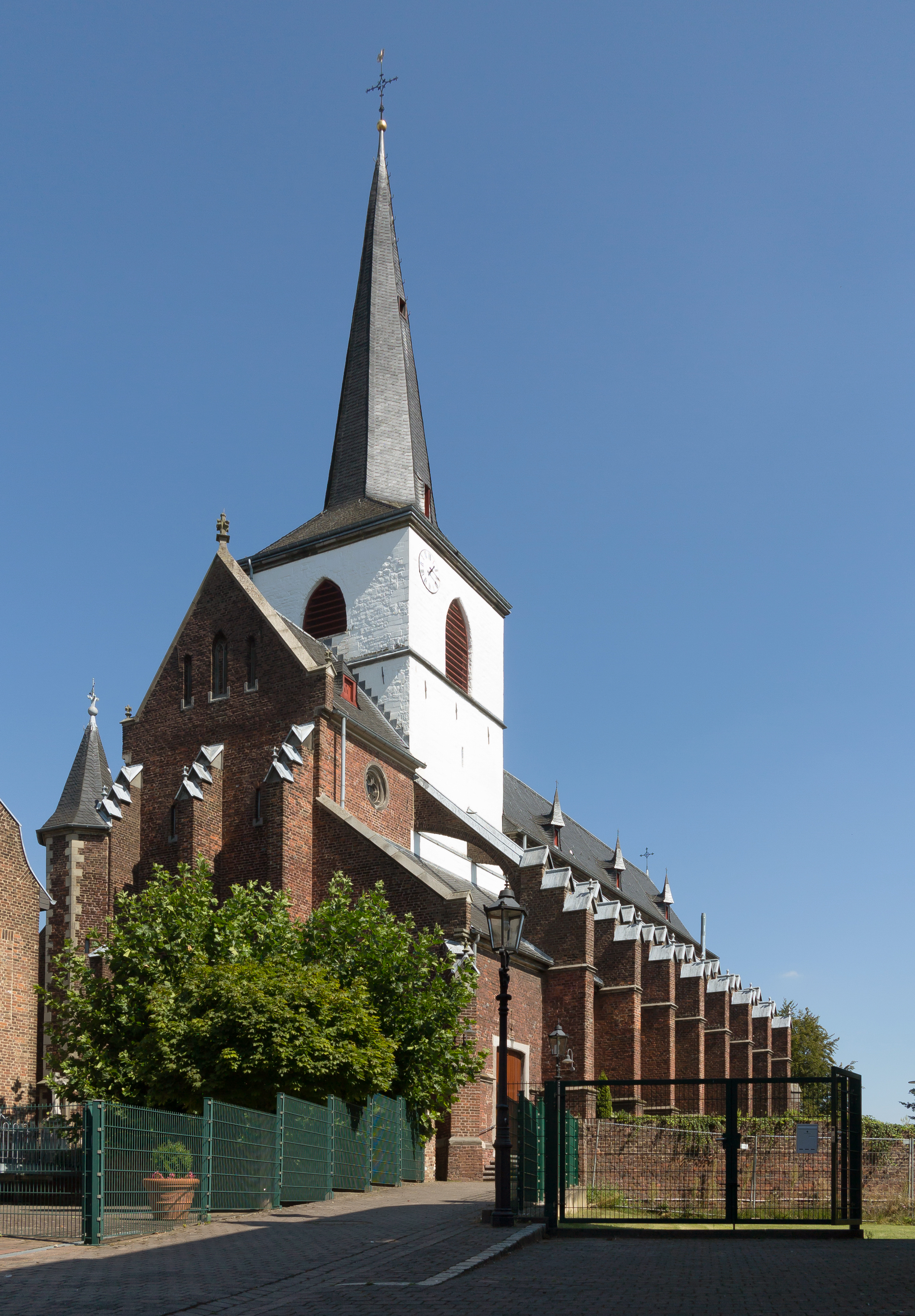 Gangelt, catholic church - Kirche Sankt NikolausThis is a photograph of an architectural monument., no. 1